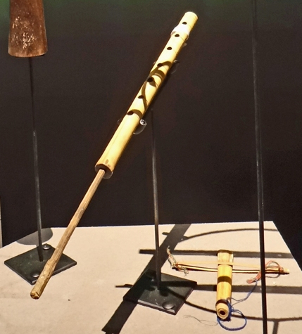 Cambodian musical instrument called a pei au. The instrument uses a bundle of reed and ratan called a loam (lower right) which forms a cartridge that inserts into the end of the flute-half. The flute-half is on the left, with a stick inserted into the hole where reed bundle goes.